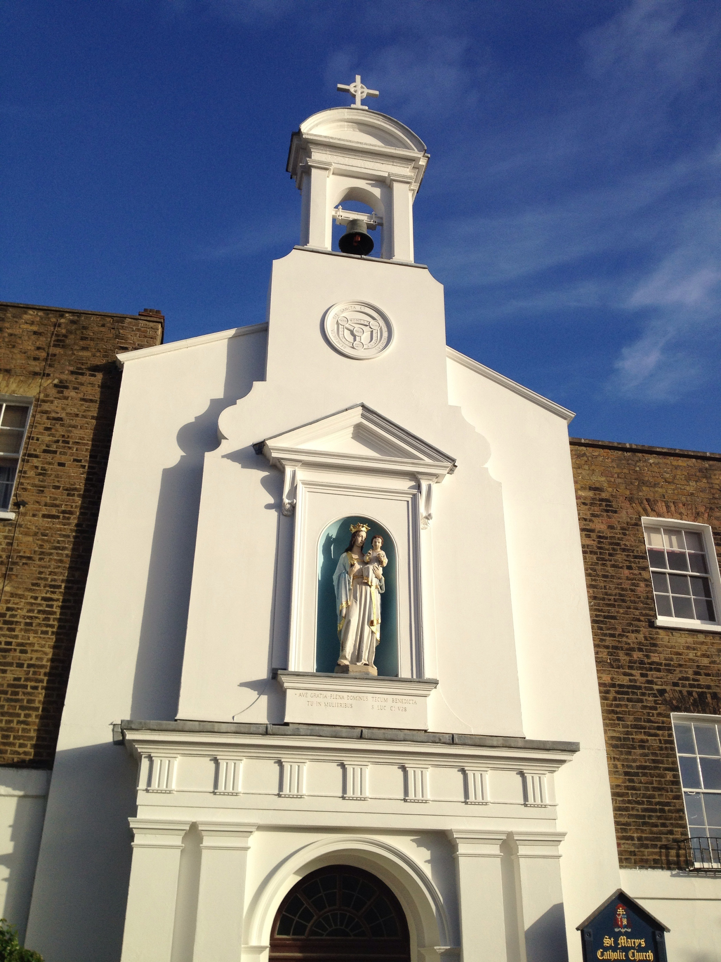 Facade of St. Mary's Church, Hampstead, London.